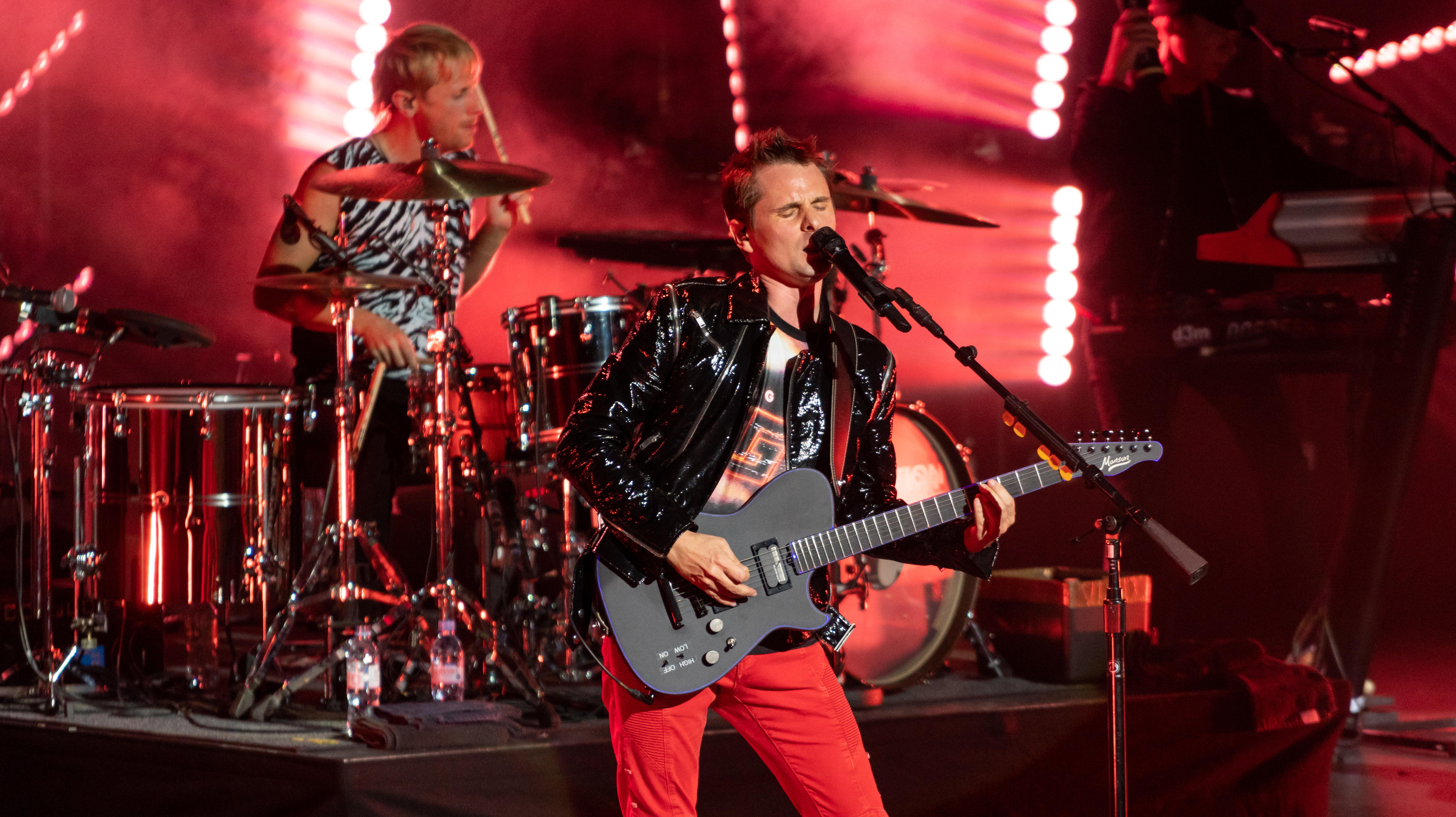 Muse plaing show to support of The Prince’s Trust charity. Opening act by YUNGBLUD.